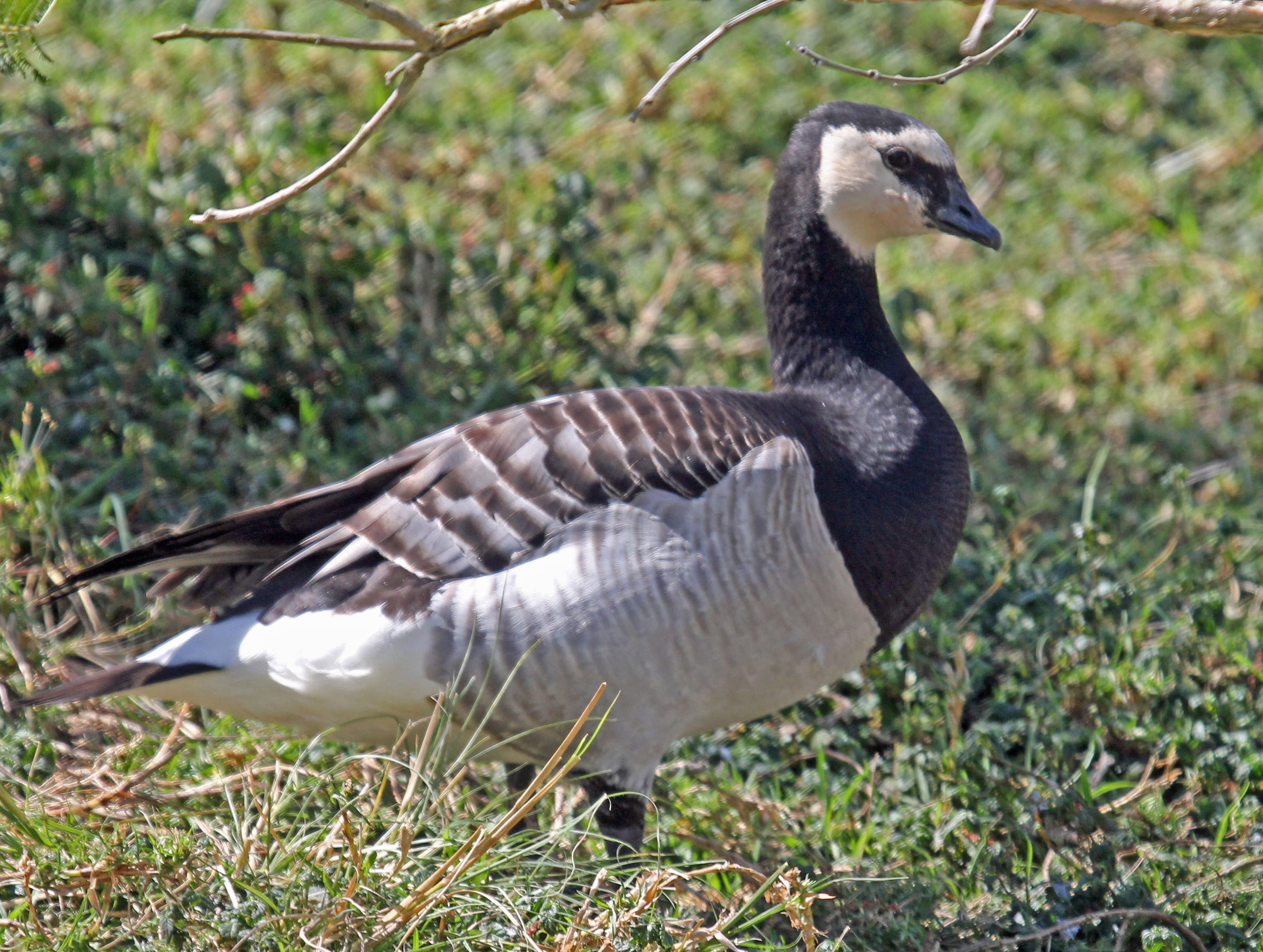 Barnacle Goose (Branta leucopsis) at Birds of Eden aviary, South Africa